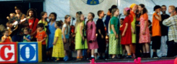 Polish music band Arka Noego during their concert in Poznan, in late June, 2001. The picture was taken by myself !